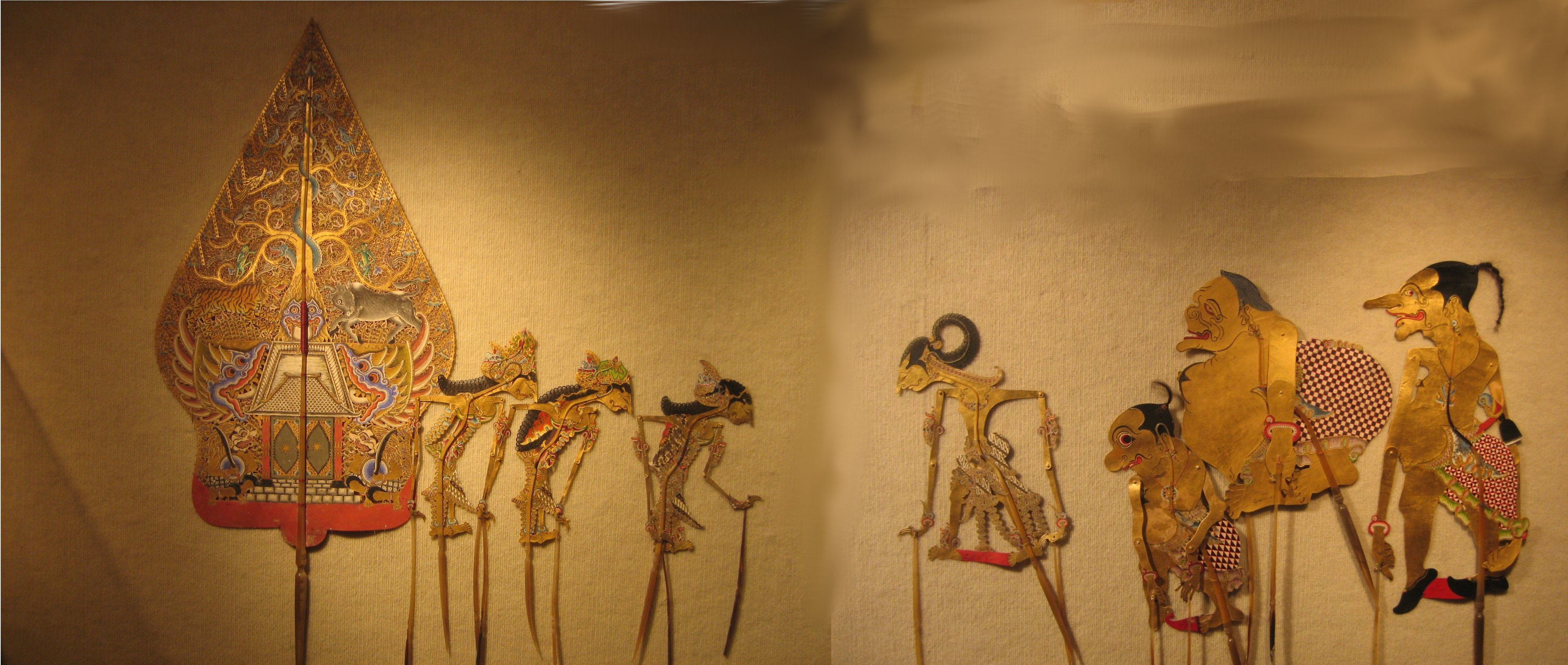 Wayang (shadow puppets) from central Java, a scene from Irawan's Wedding, mid 20th century, University of Hawaii Dept. of Theater and Dance